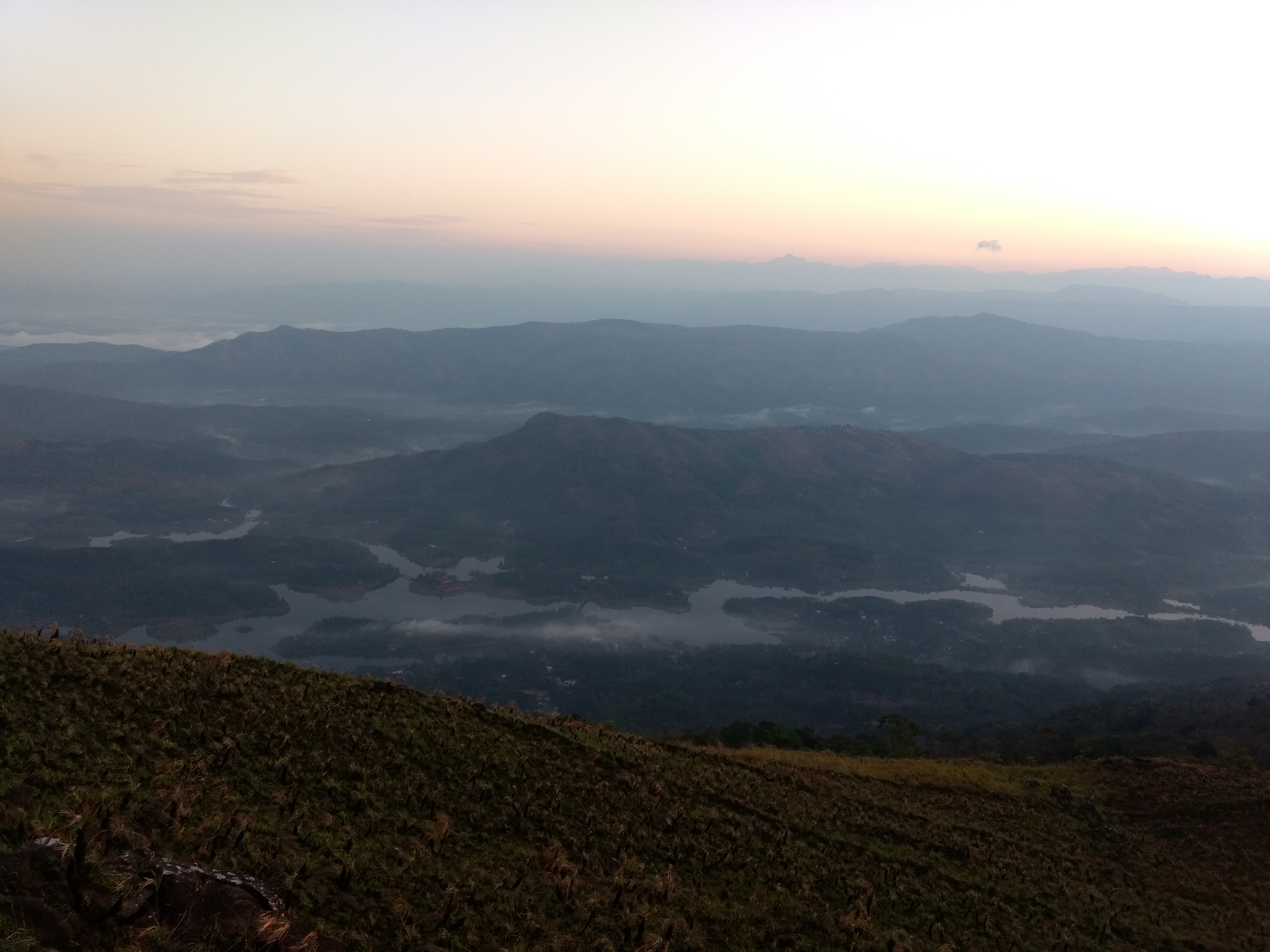 This image show the top view from the ilaveezha poonchira